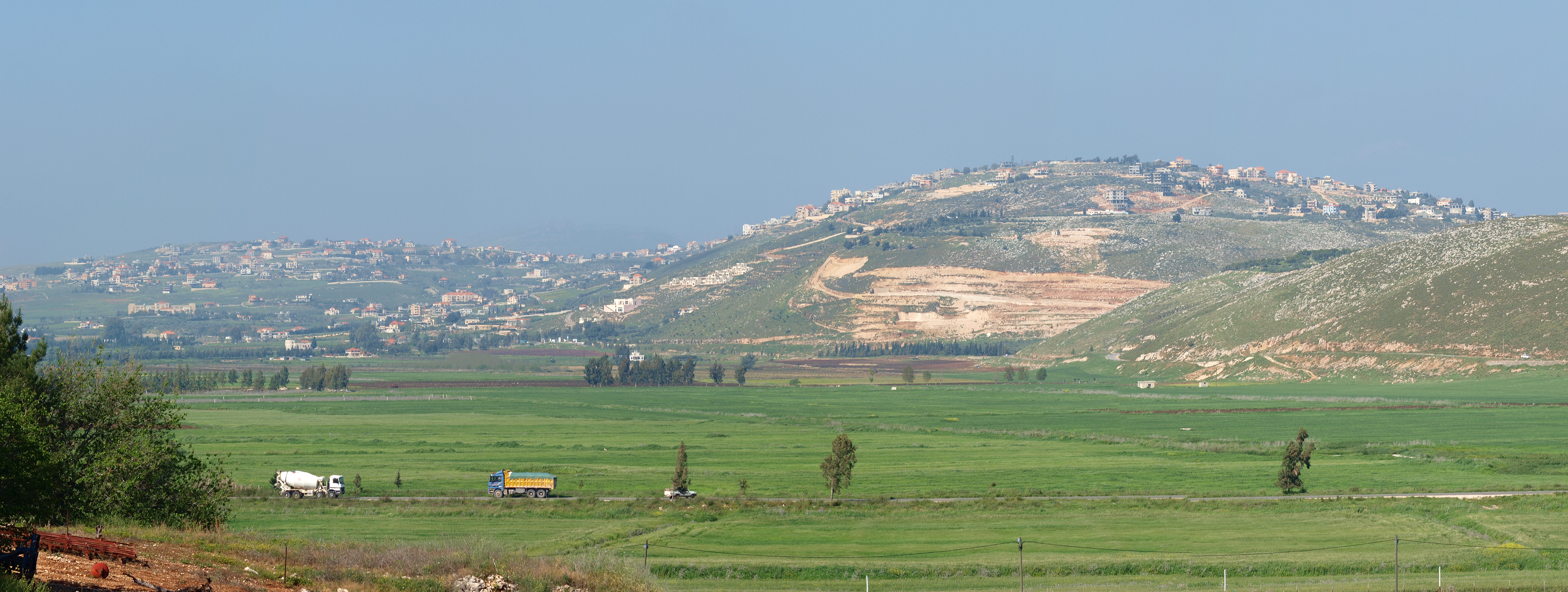 Khiam. Nabatieh Governorate. Lebanon.